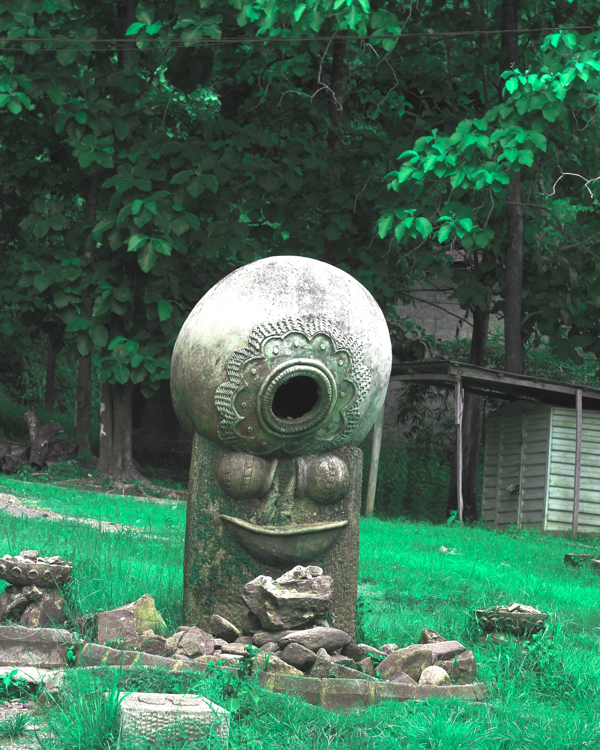 This is the symbol of Erin ijesa waterfall